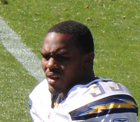 Dante Hughes, a National Football League player.